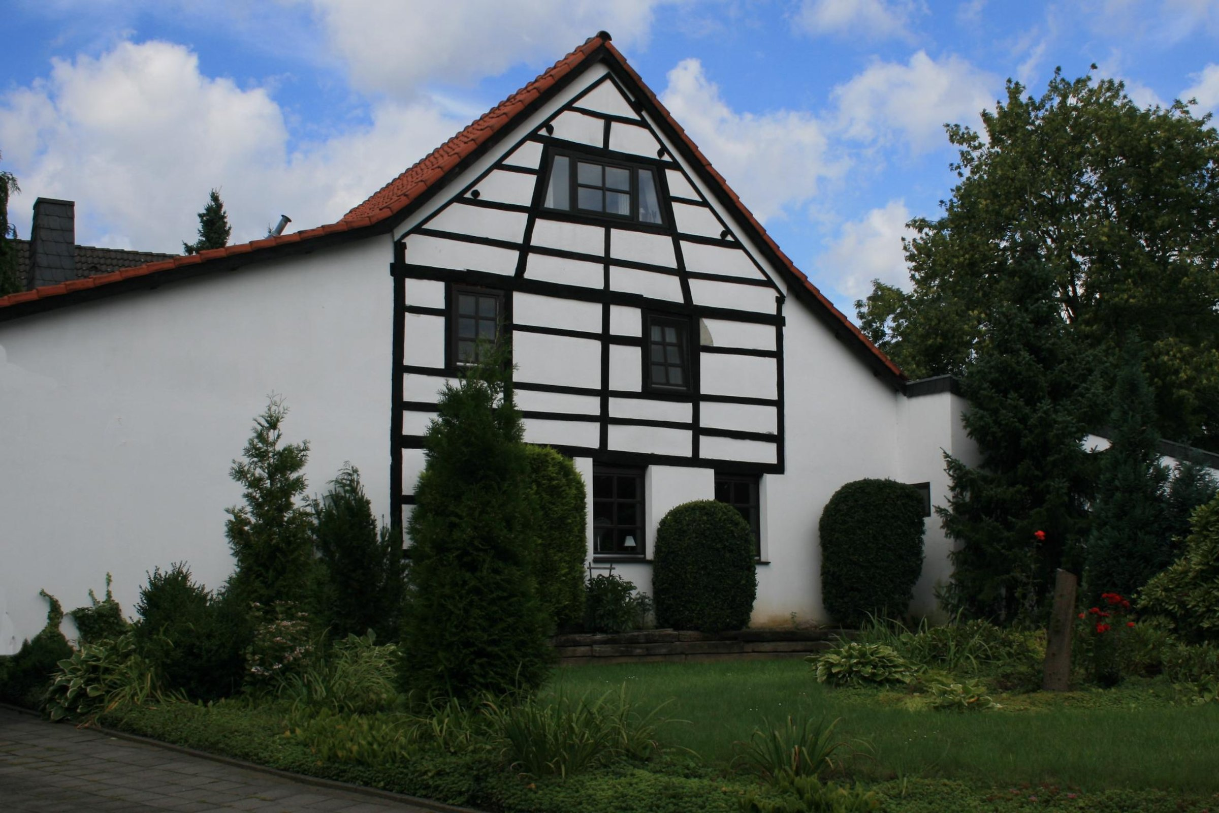 Cultural heritage monument No. G 009 in Mönchengladbach